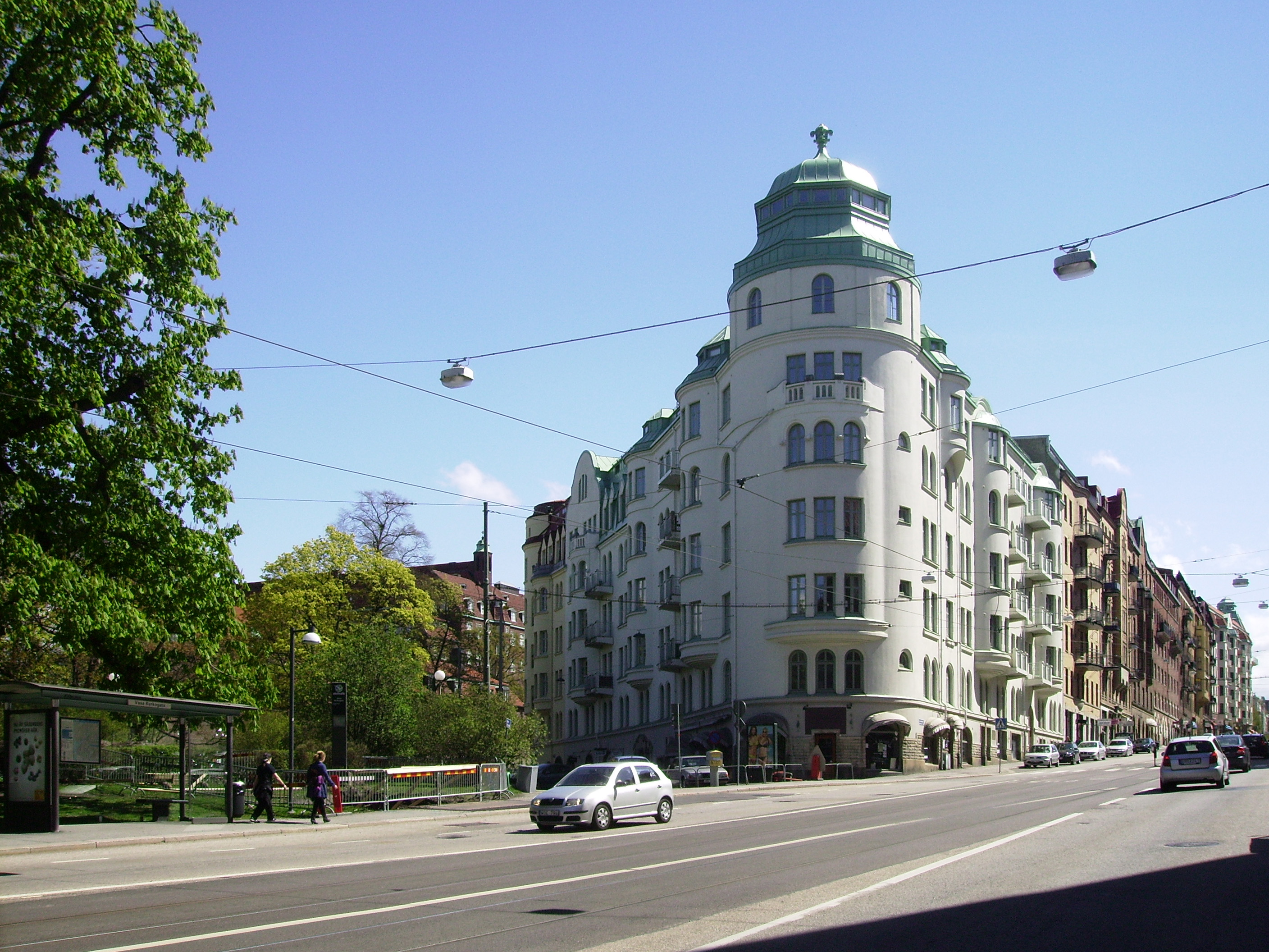 Picture of Aschebergsgatan in Göteborg